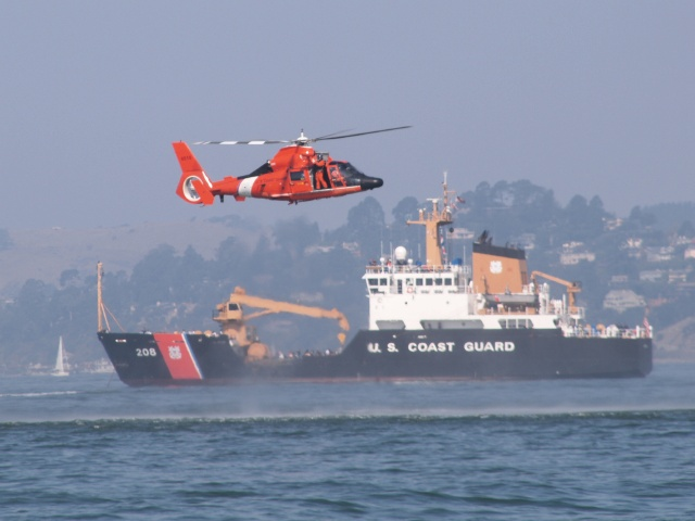 U.S. Coast Guard helicopter and USCGC Aspen (WLB-208) a Juniper class buoy tender.